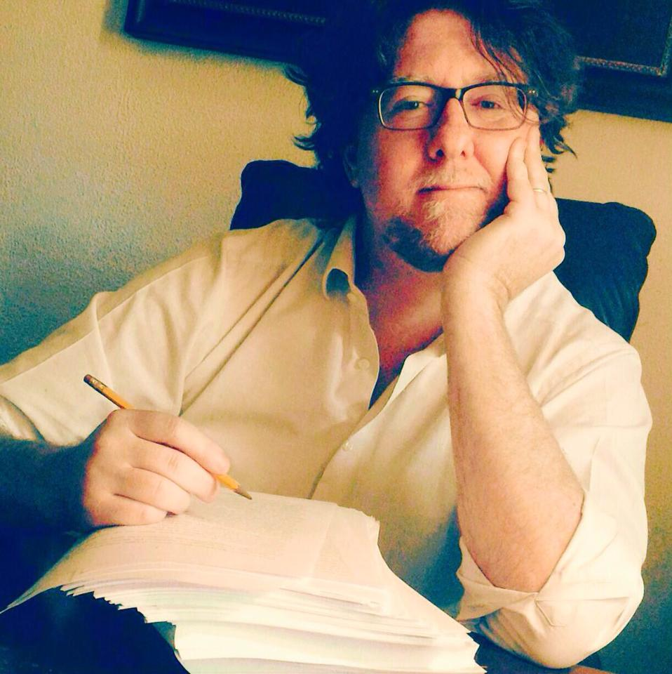 Gianluca Arrighi (2016)